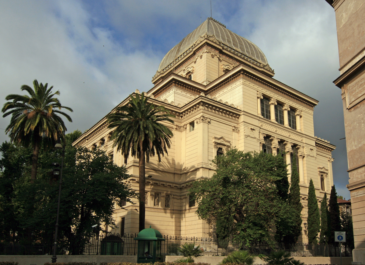 Synagogue, Rome. Seen from NE.